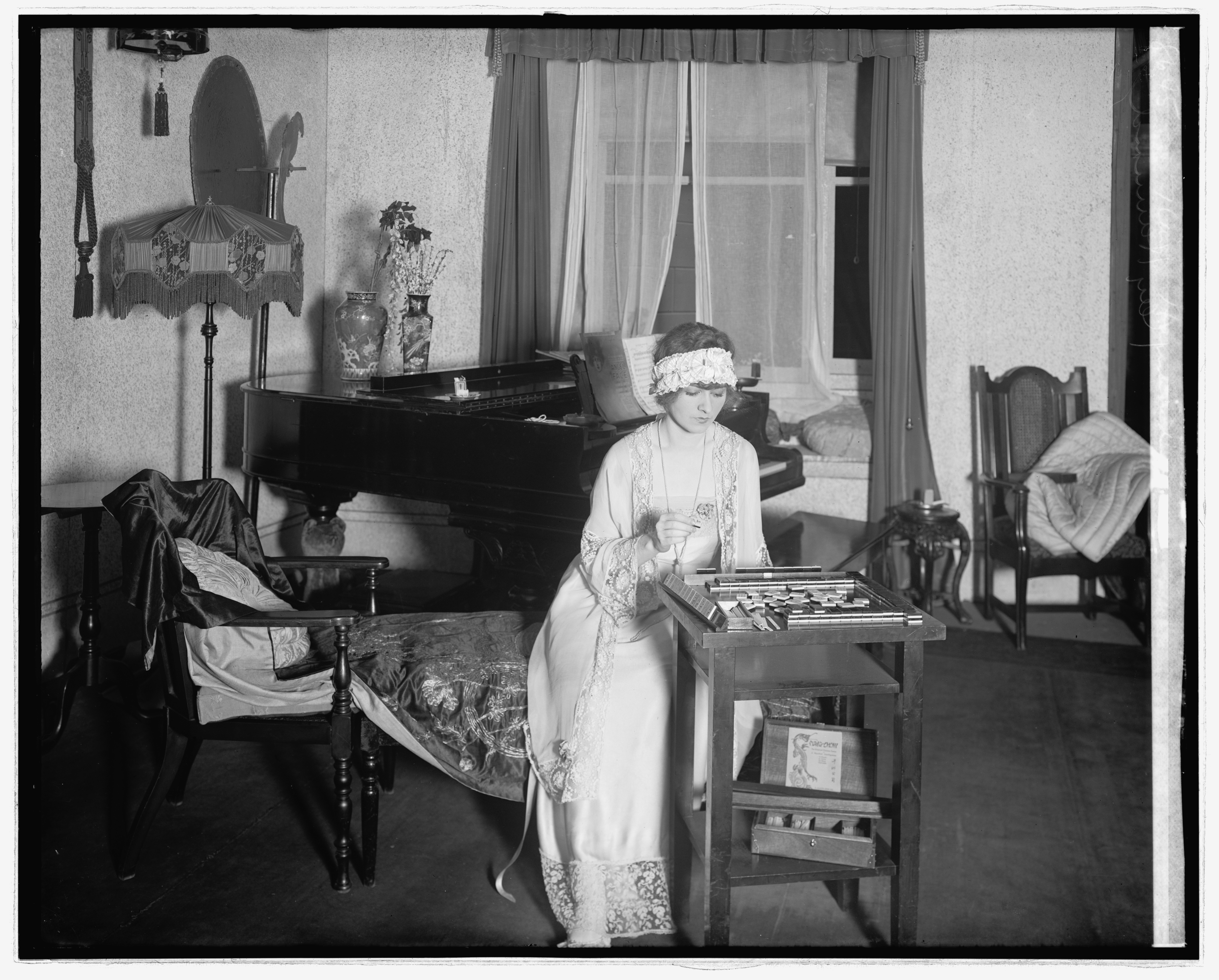 Kay Hammond (American actress) between 1910 and 1920.